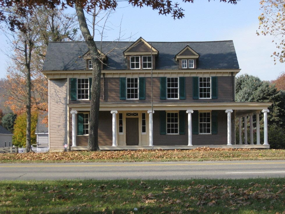 Cockayne House after exterior renovations.